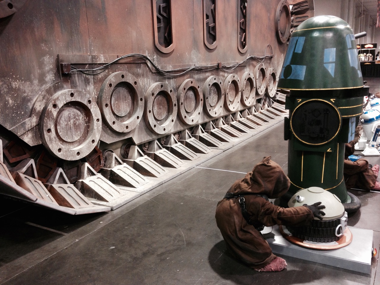 A set of Jawas and their Sandcrawler at Star Wars Celebration 2015 at the Anaheim Convention Center. Star Wars Celebration in Anaheim, April 2015.